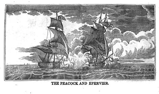 Engraving by Abel Bowen, from "The Naval Monument."